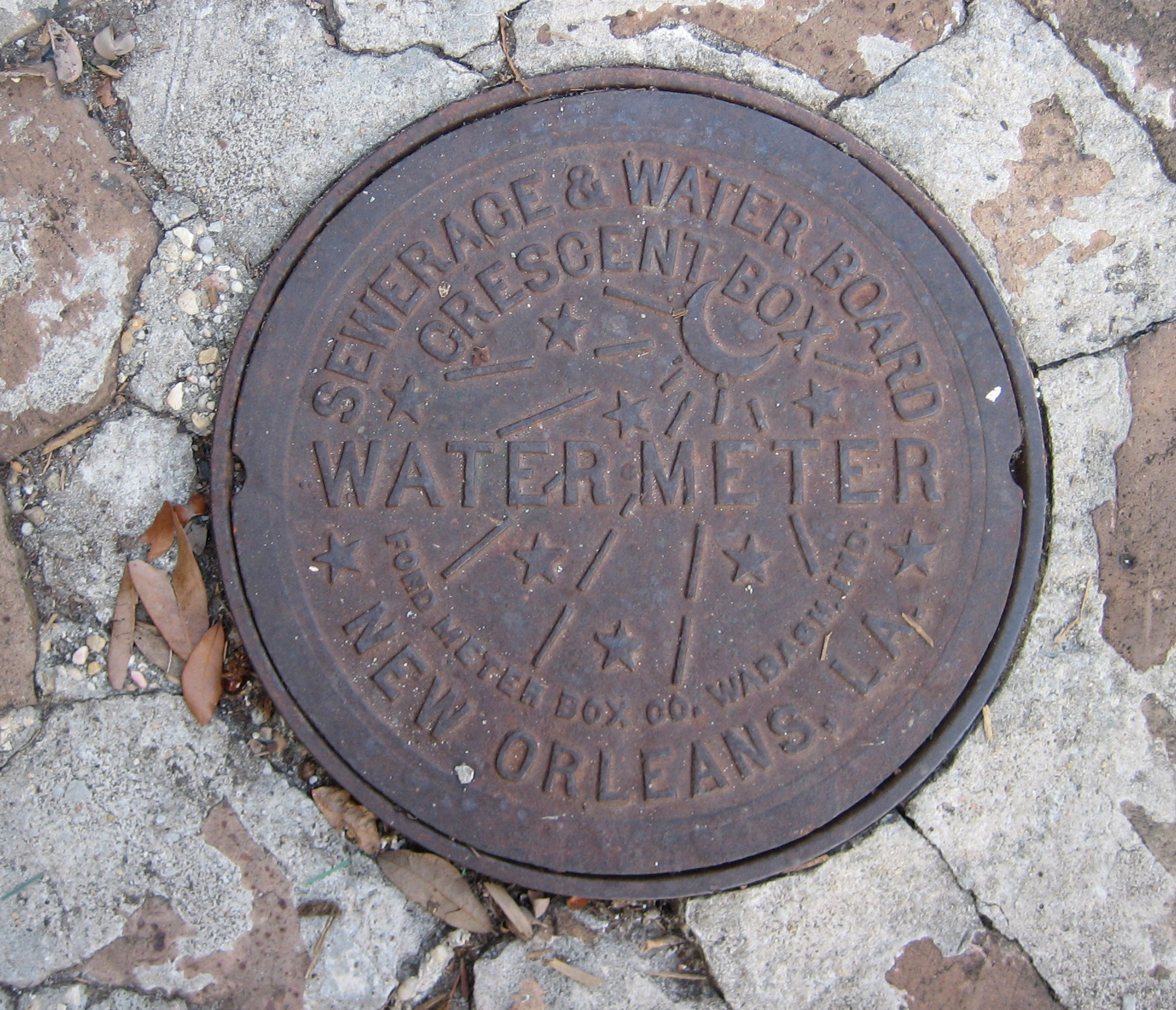 New Orleans: Old style art nouveau New Orleans Sewerage & Water Board meter cover.